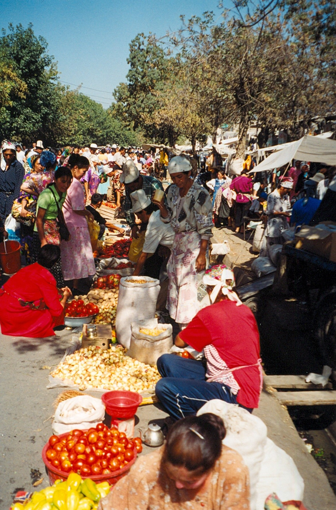 Sunday market, Osh, Kyrgyzstan.